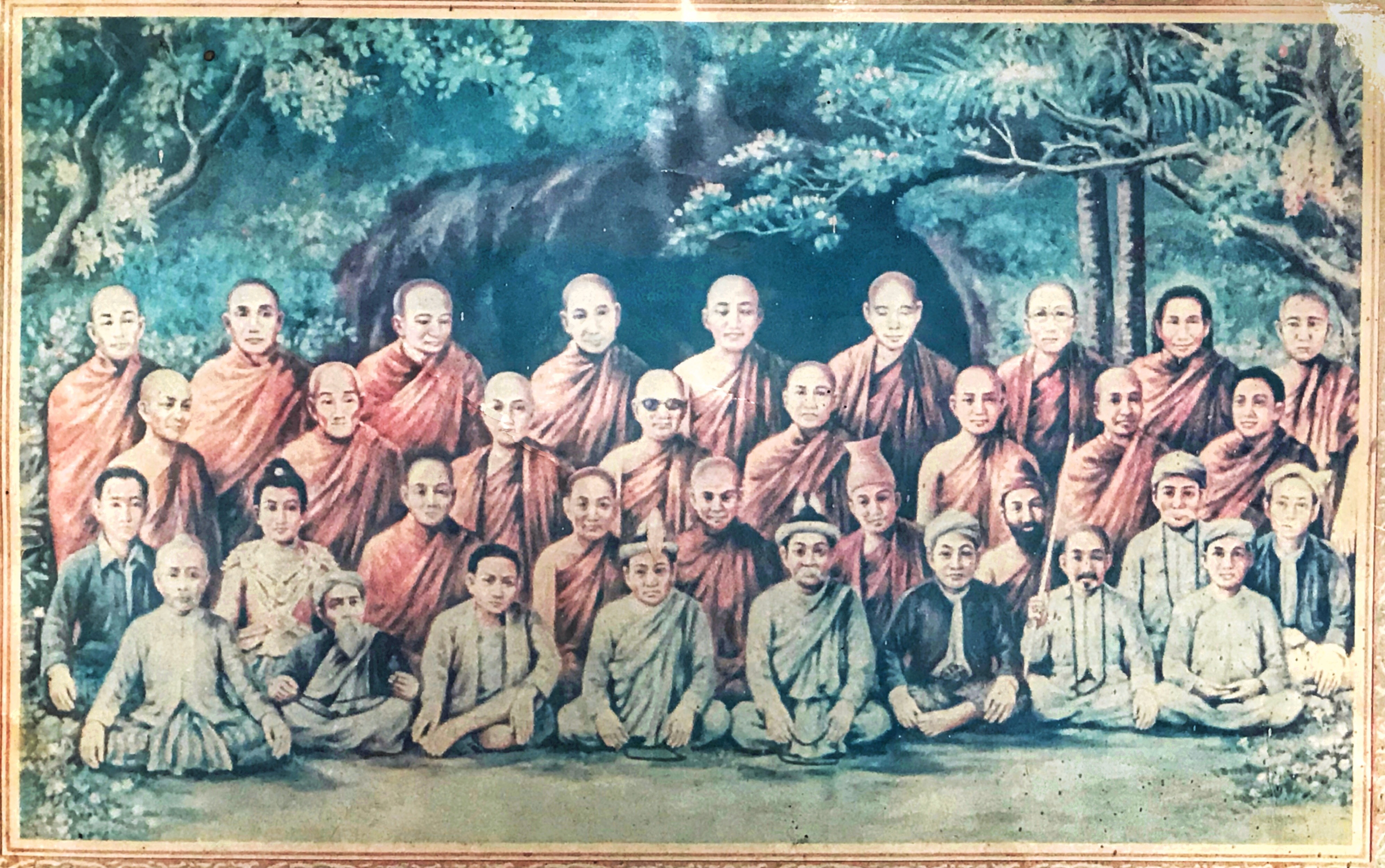 Famous Weizzas from Myanmar